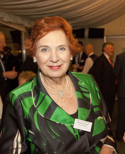 Baroness Fookes at the All-Party Parliamentary Gardening & Horticulture Group meeting - November 2011.